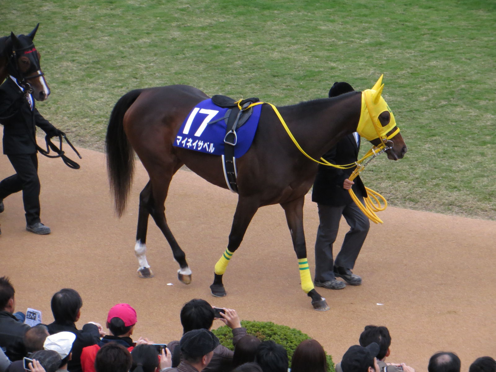 Meine Isabel (Racehorse of Japan)